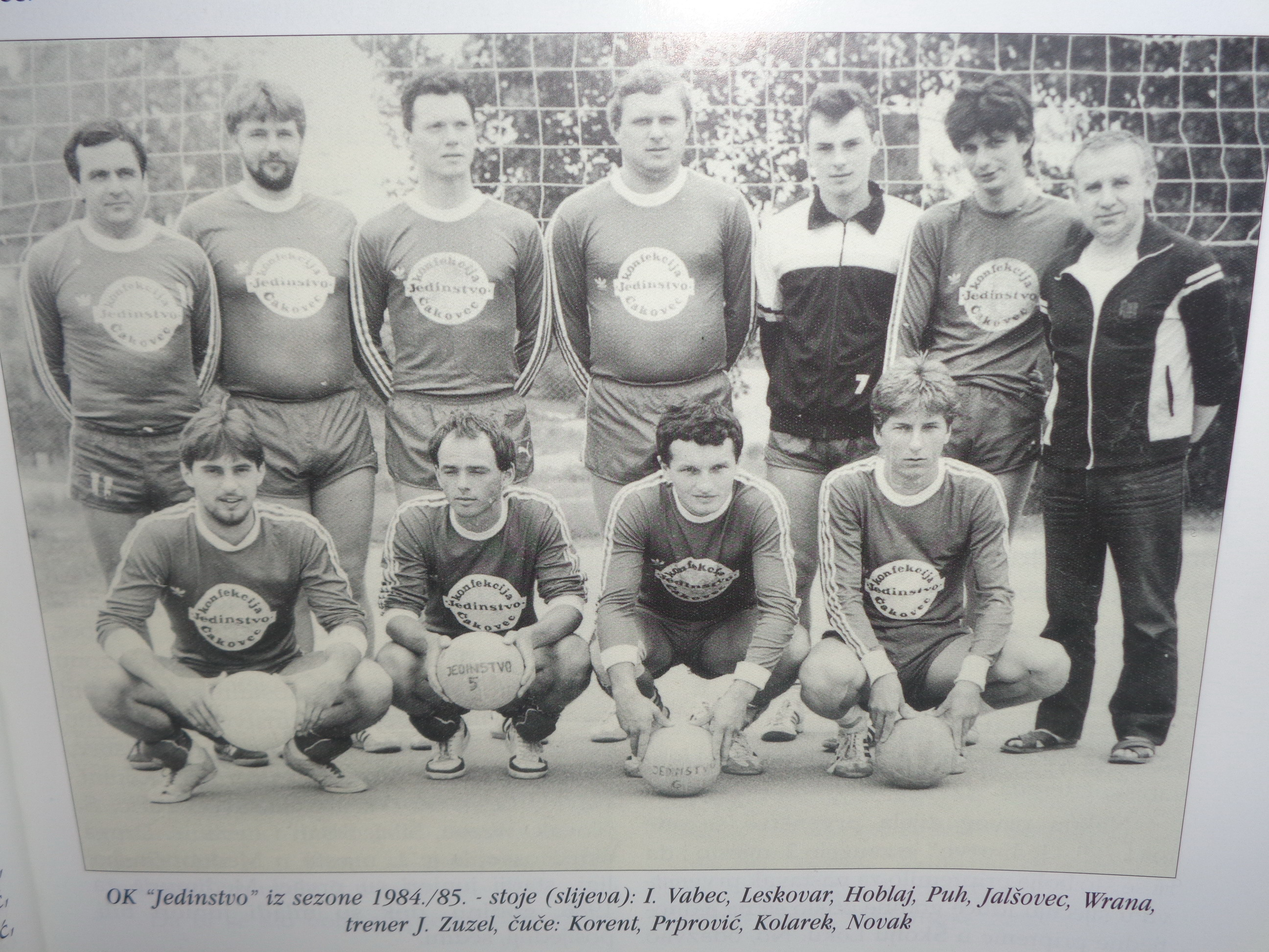 OK "Jedinstvo" volleyball team from 1984/1985, Čakovec, Croatia